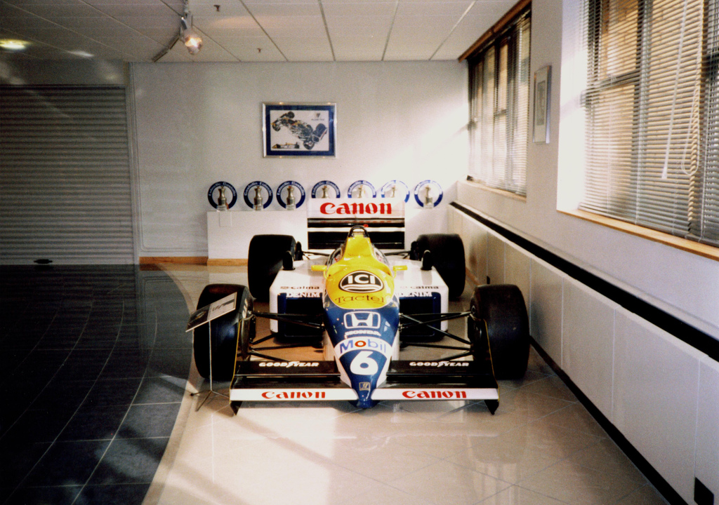 Author, Kev Swindells taken summer 1996 at the Williams F1 factory/museum. Creative Commons Attribution-Share Alike 2.0 UK: England & Wales License.